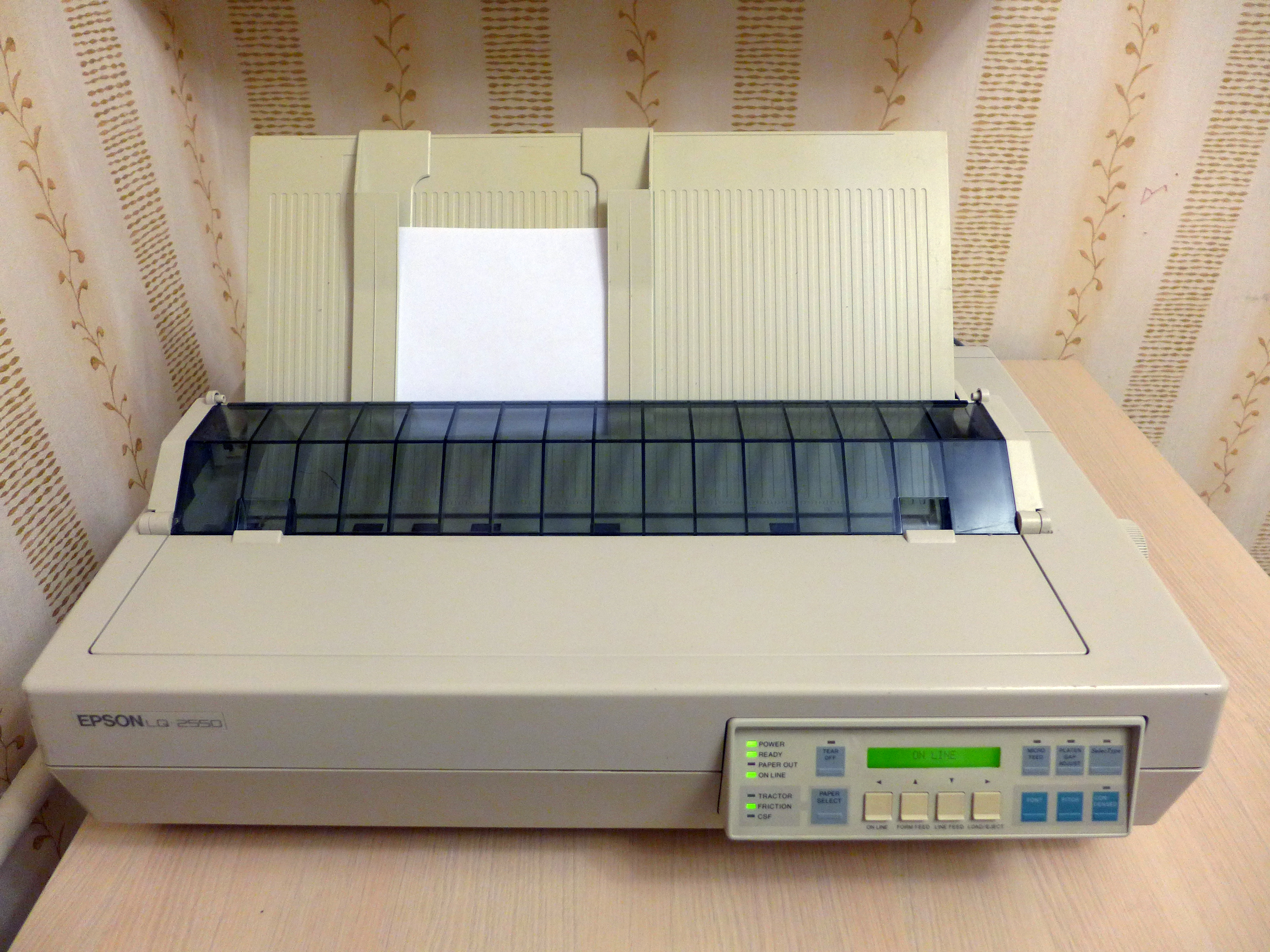 Epson LQ-2550 24 pin colour wide carriage dot matrix printer